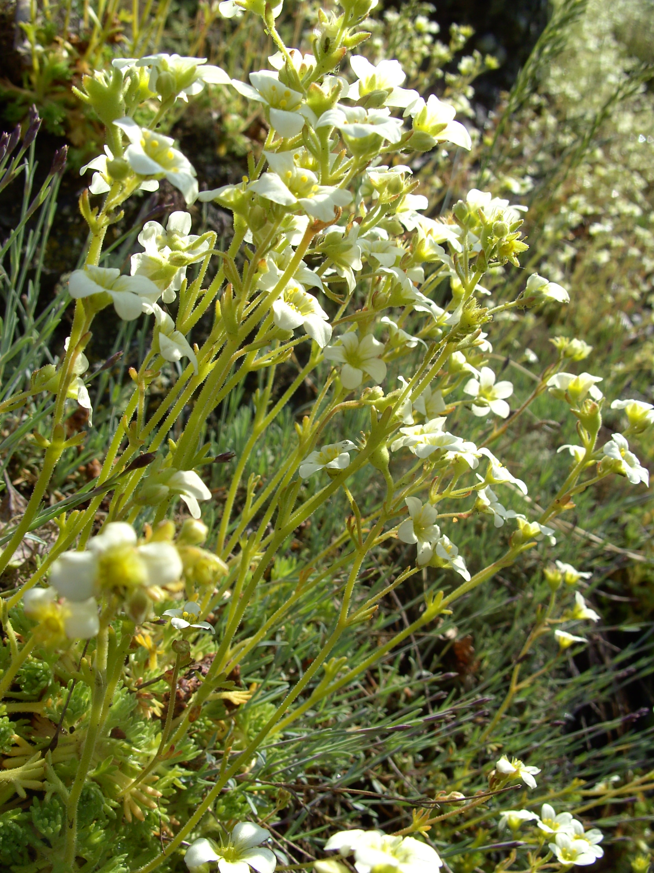 Saxifraga groenlandica on a serpentinite rock in nature reserve "Wojaleite" (Northern Bavaria)